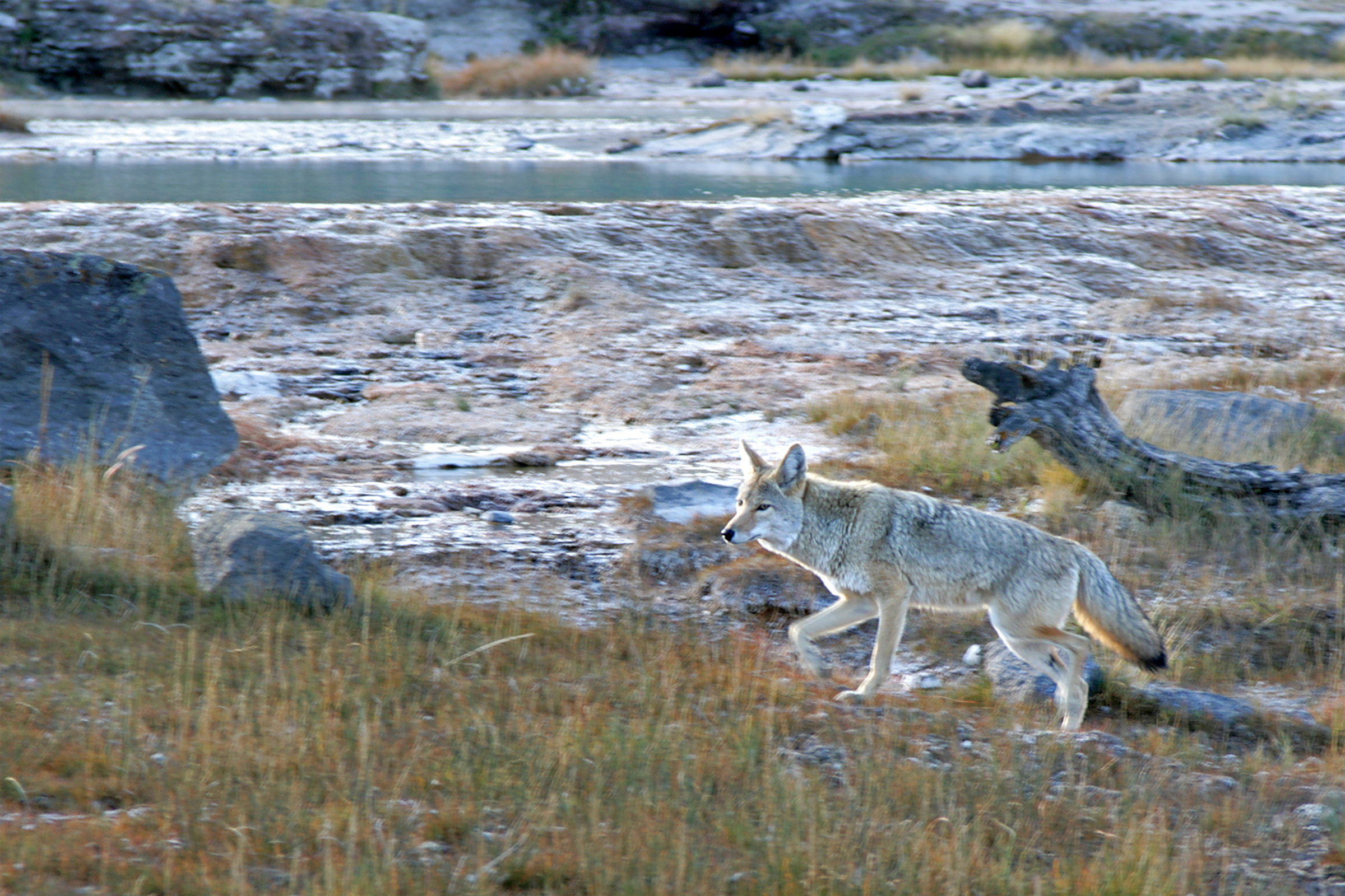 Coyote in Yellowstone National Park